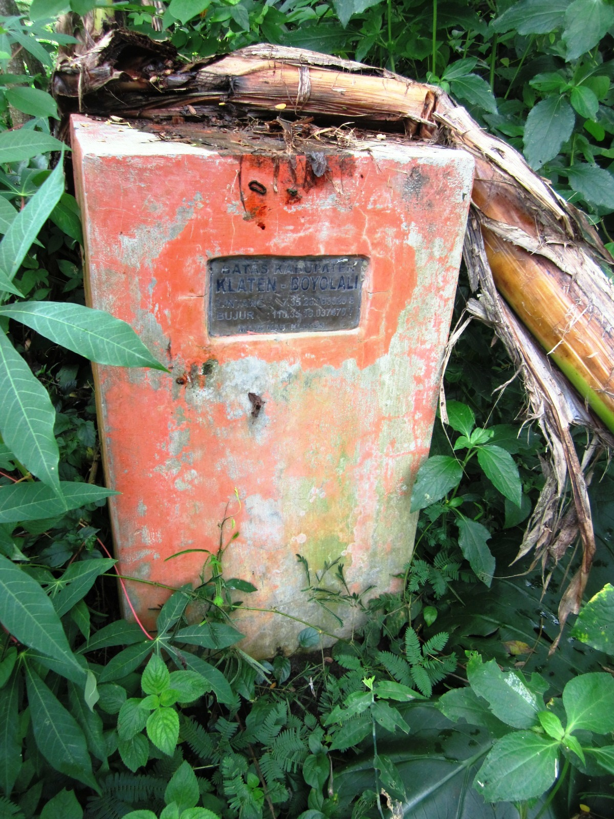 Boundary stone between Klaten and Boyolali Regency, Central Java, Indonesia. Located by the bank of a river. Written in the label is the latitude and longitude position.